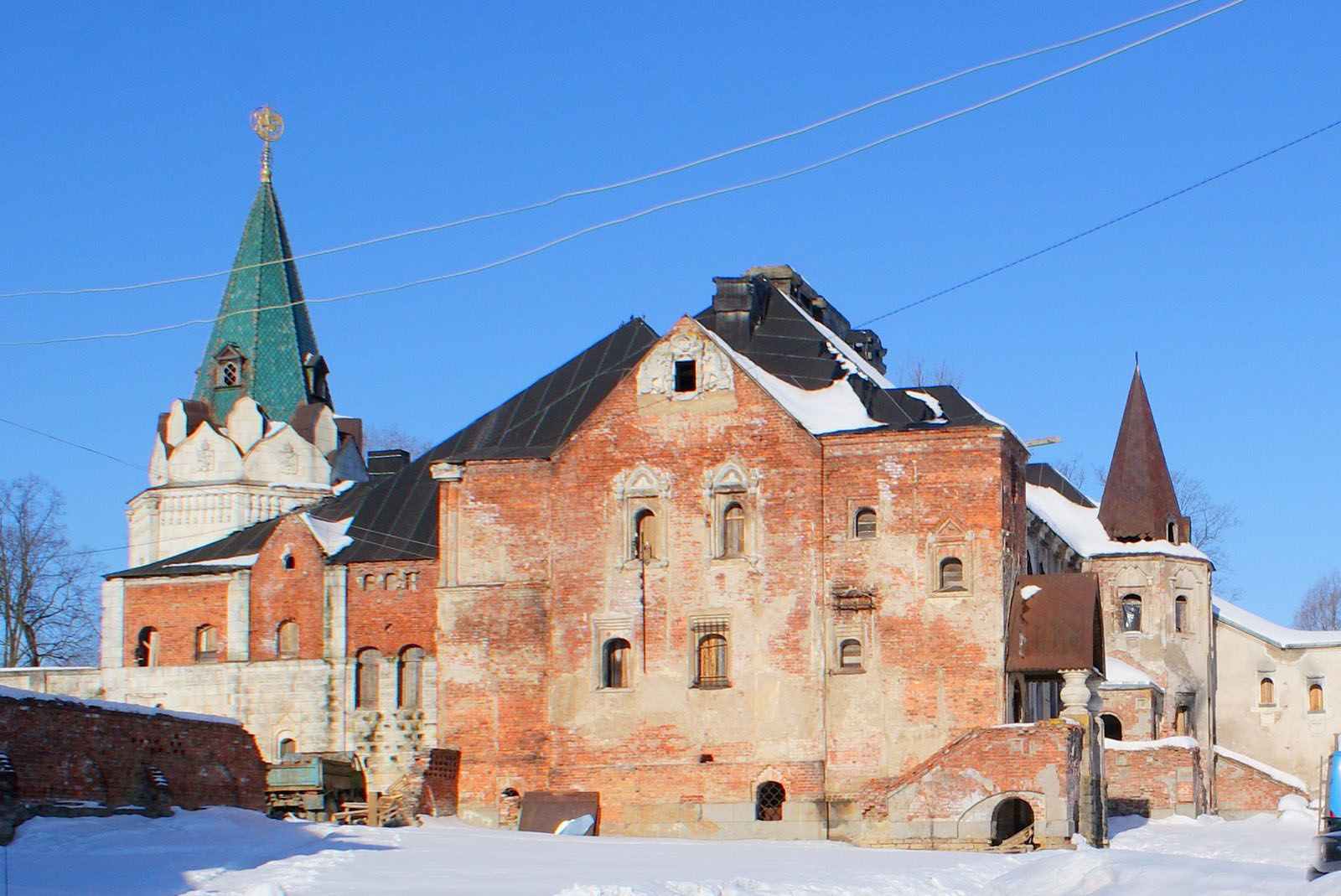 Feodorovsky gorodok in Tsarskoye Selo. The Refectory chamber. Courtyard view.